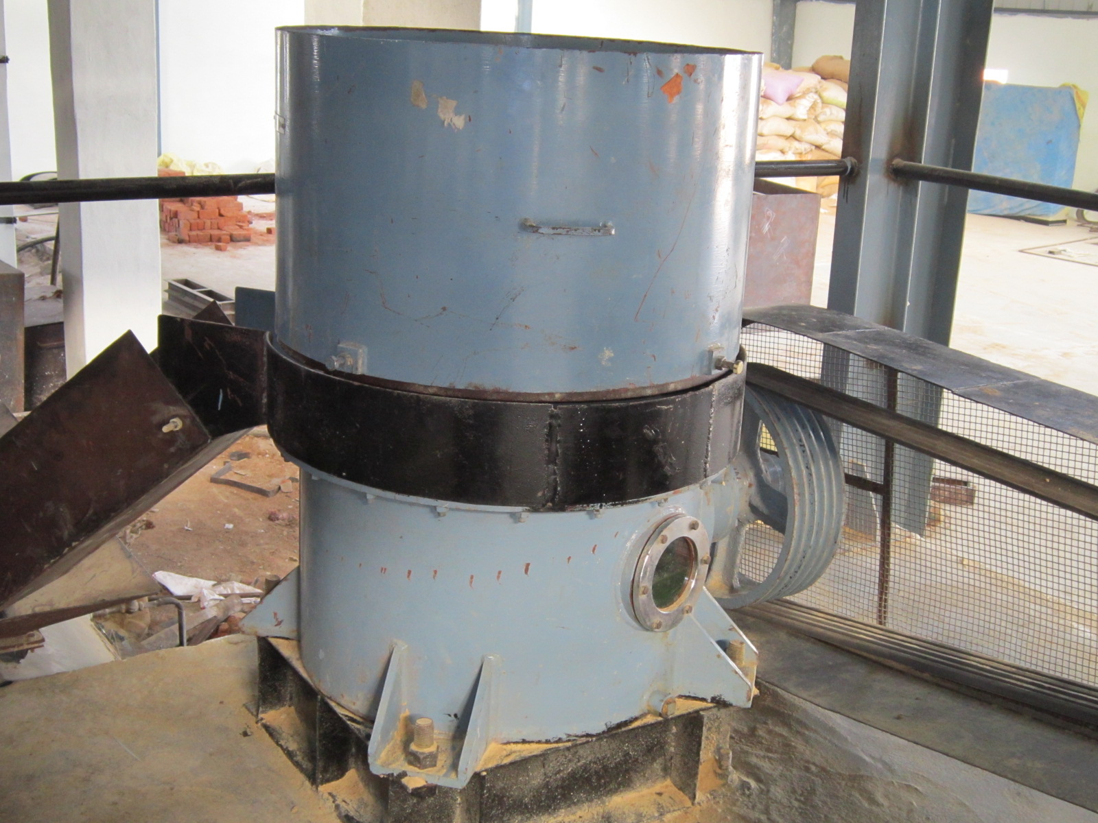 pellets are produced from Bran and oil is extracted in solvent extraction plant